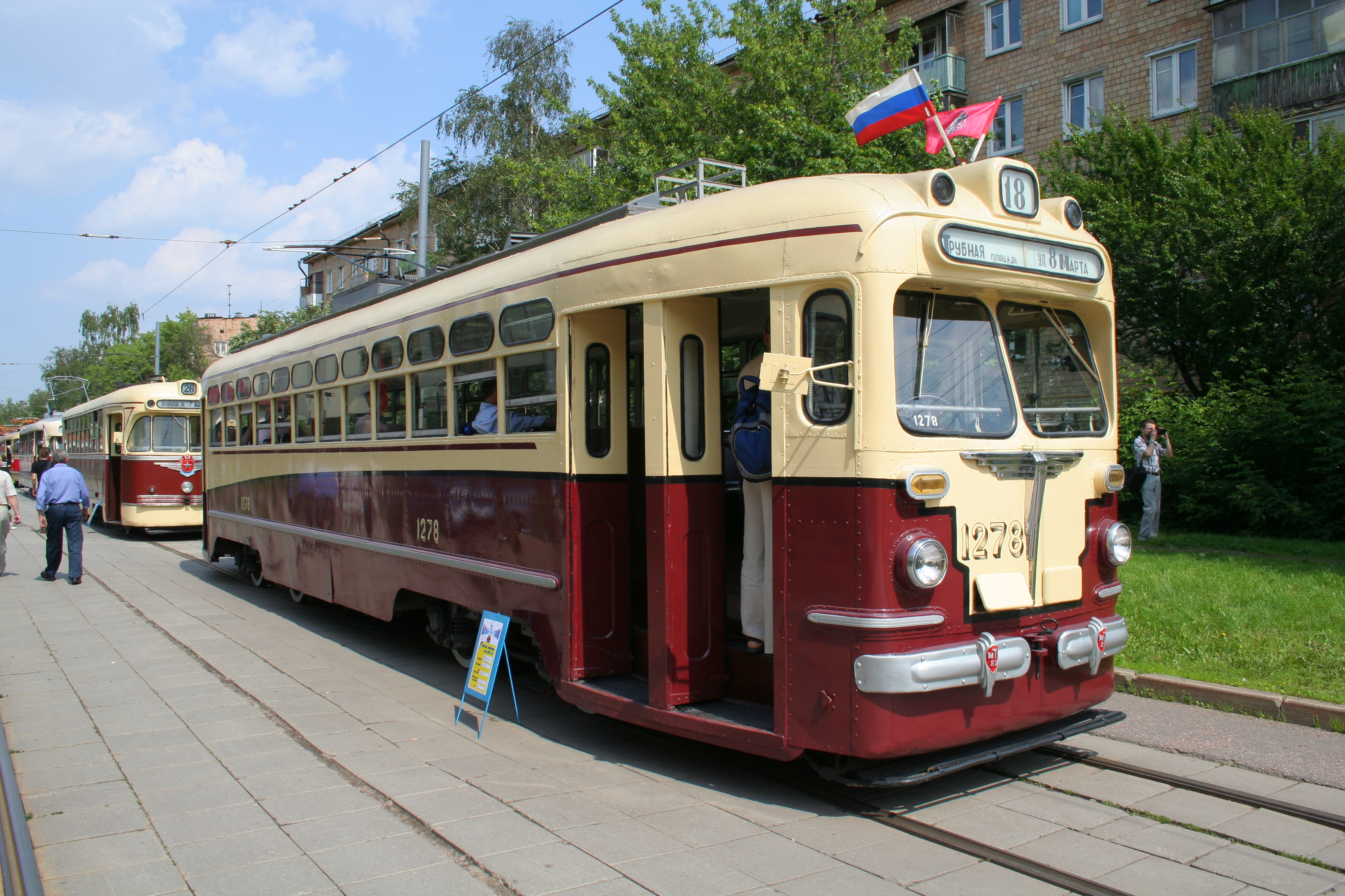 Retro Tram Mosgortrans MTV-82 (similar to the MTB-82 trolley) on show at the depot. Bauman June 12, 2010.